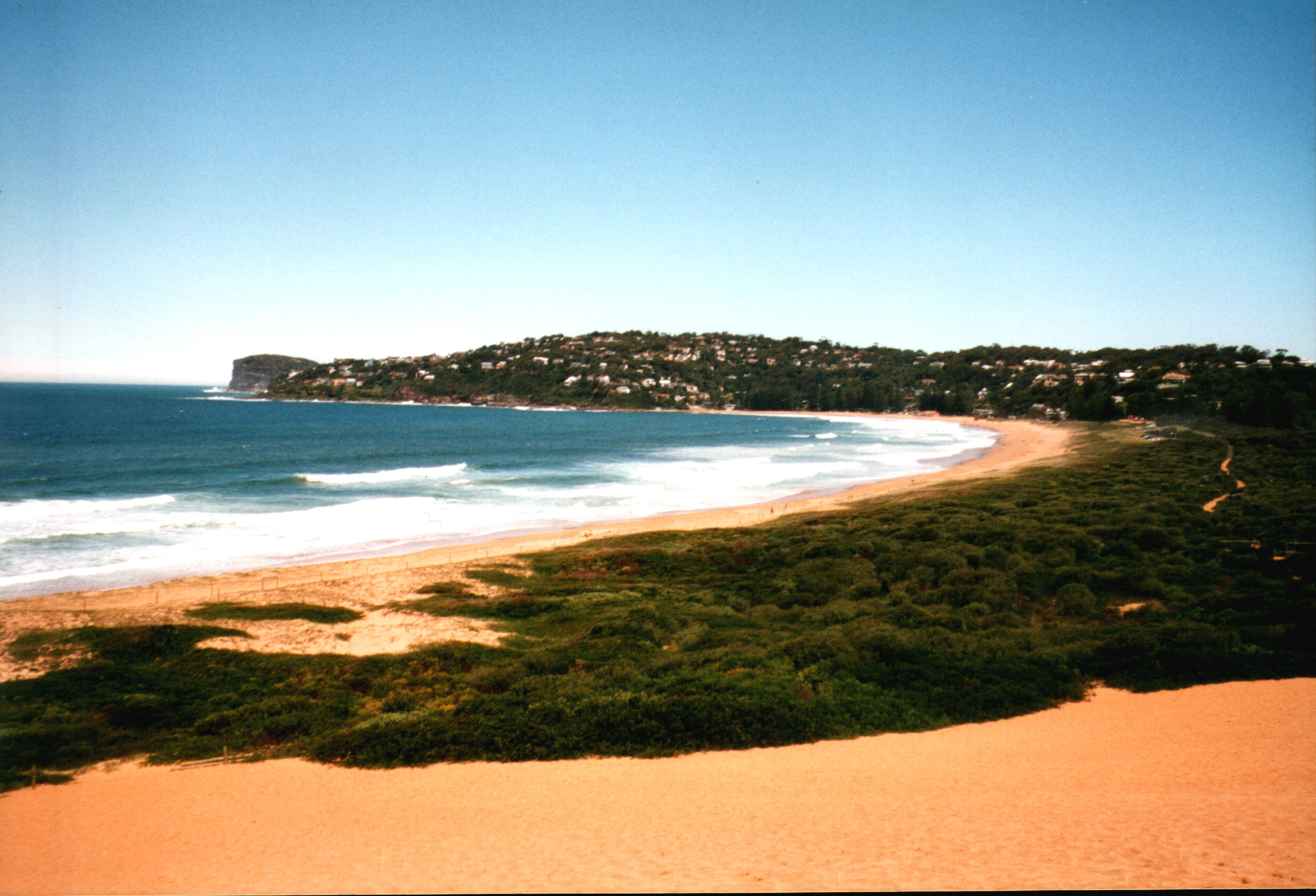 Palm Beach, North of Sydney